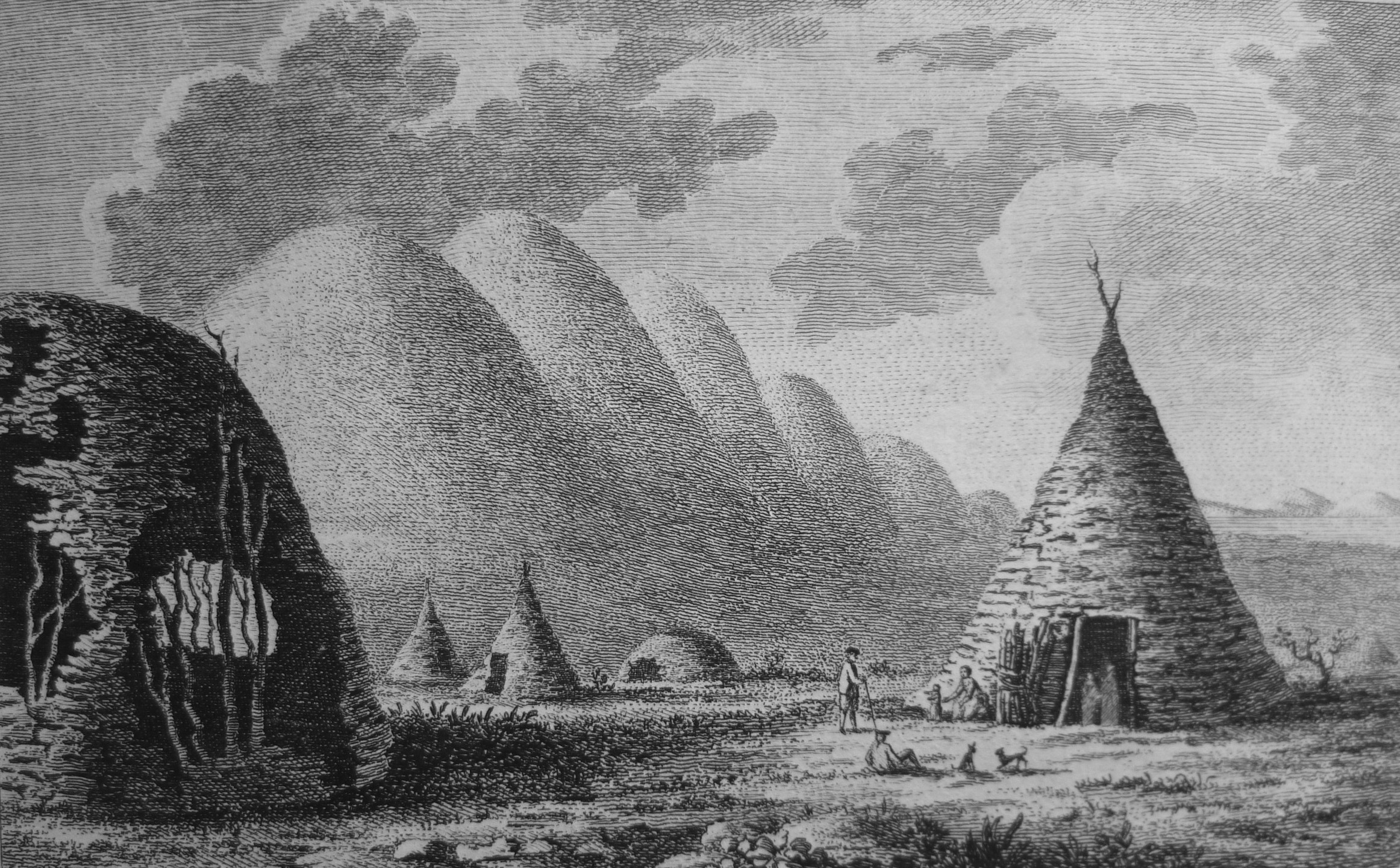 Engraving entitled 'Shielings on the island of Jura and a view of the Paps'